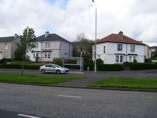 Edinburgh Road bus stop